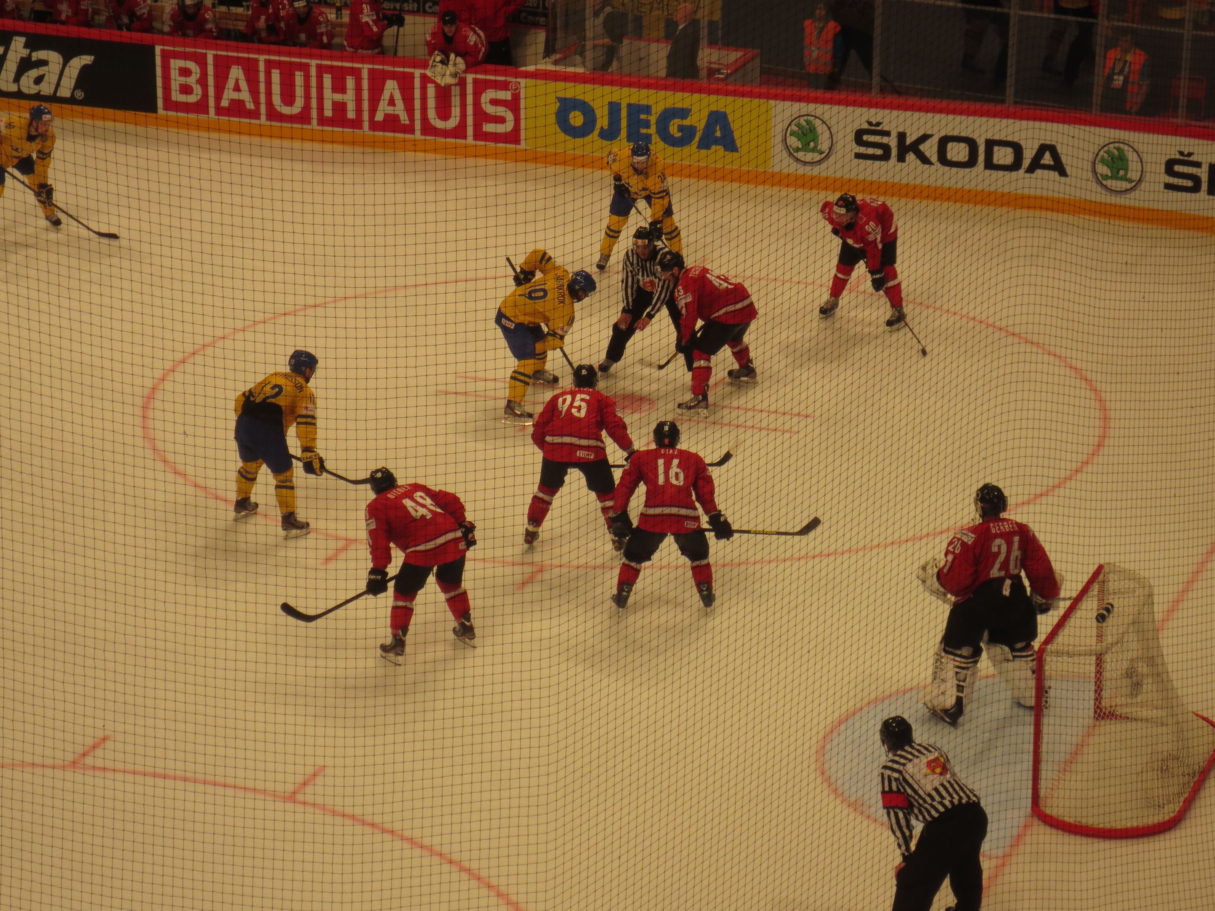 2013 IIHF World Championship Final.